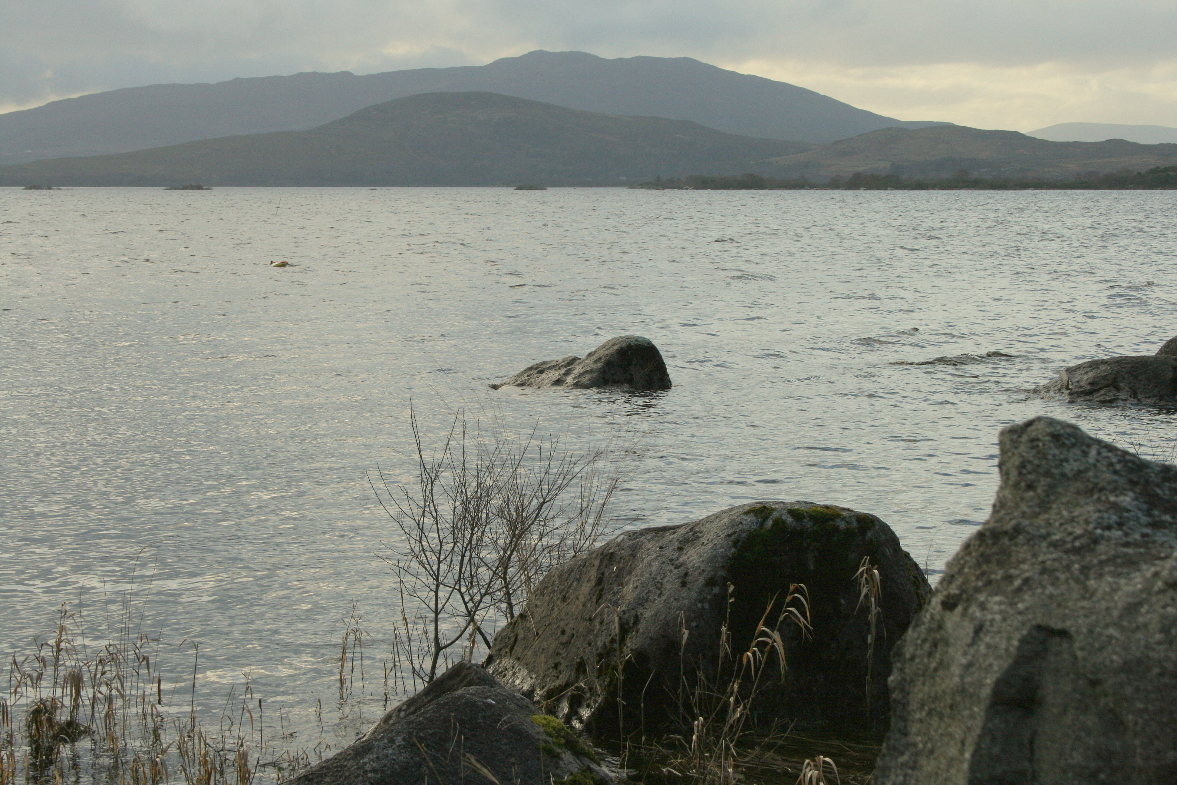 Lough Cullin, County Mayo, Ireland.